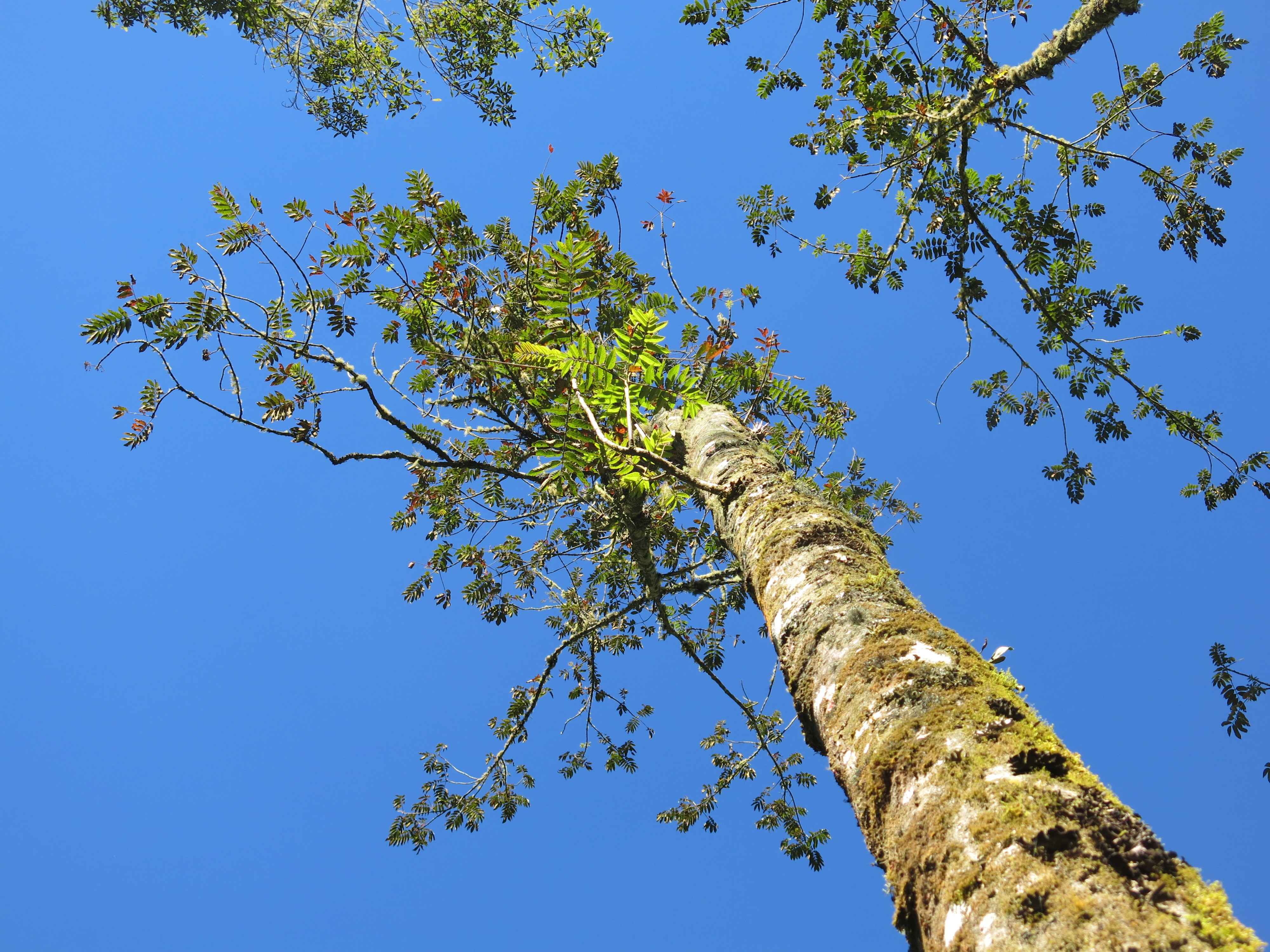 Tree in Sierra de Bahoruco National Park. Local name: Sangre de Gallo, Palo de Cotorra